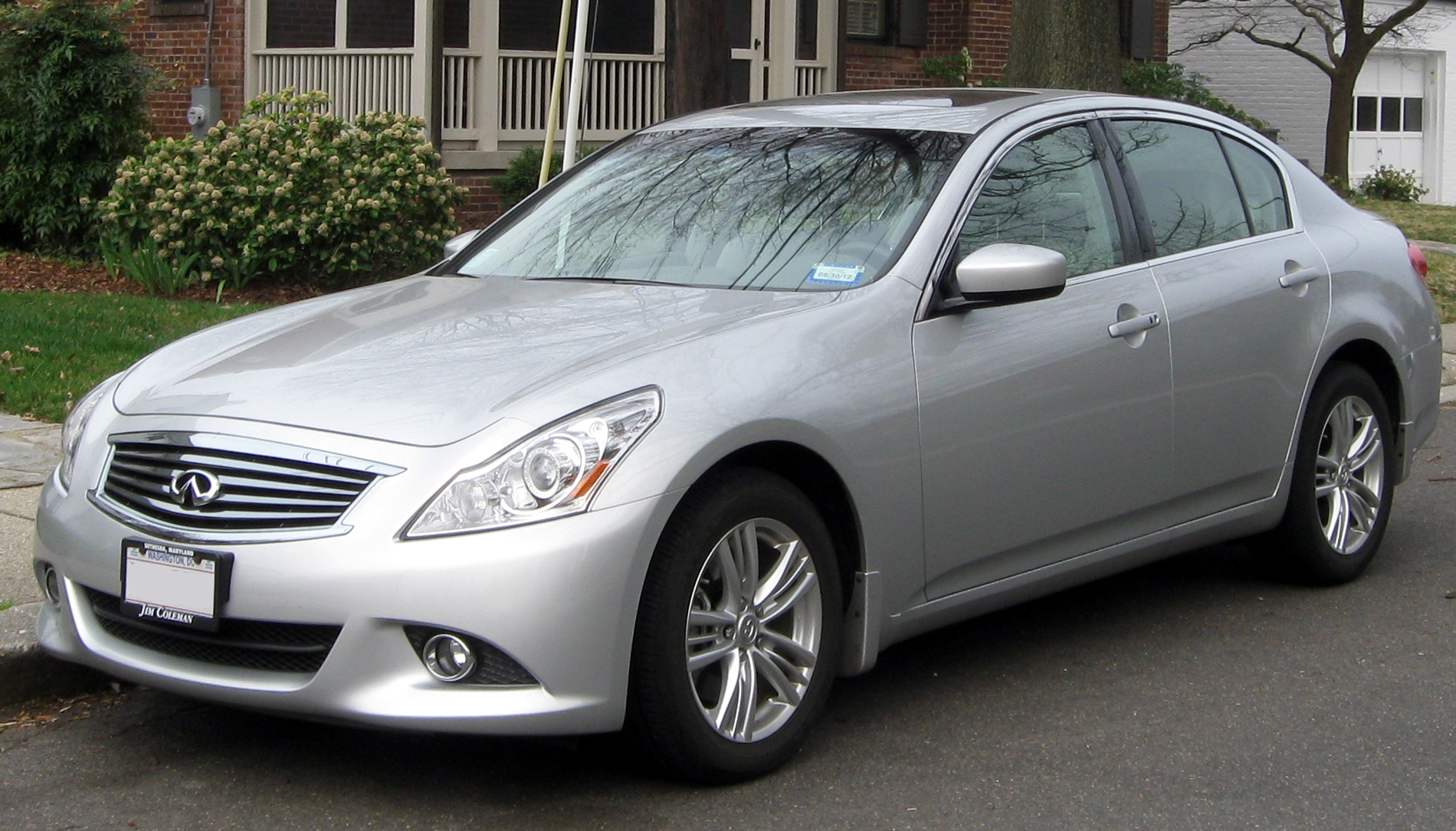 2010-2012 Infiniti G37X photographed in Washington, D.C., USA.